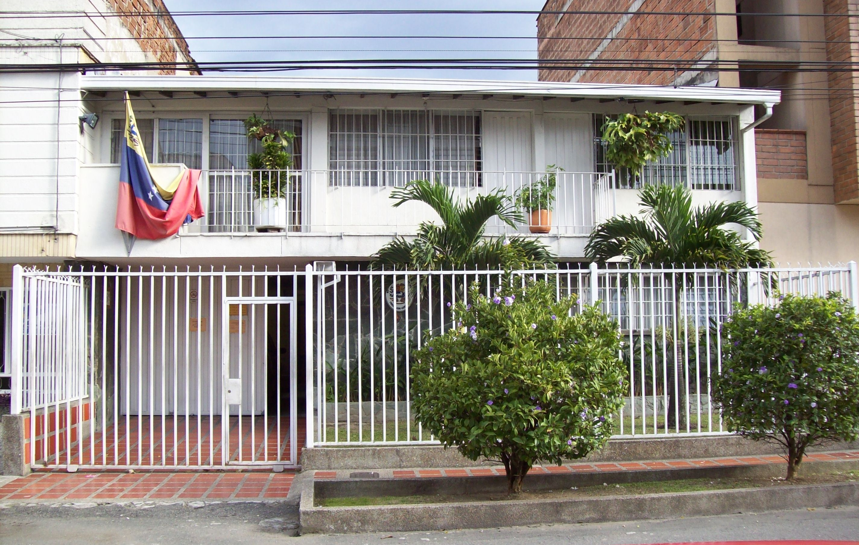 Venezuelan consulate in Medellín at Calle 32-B, N° 69-59.